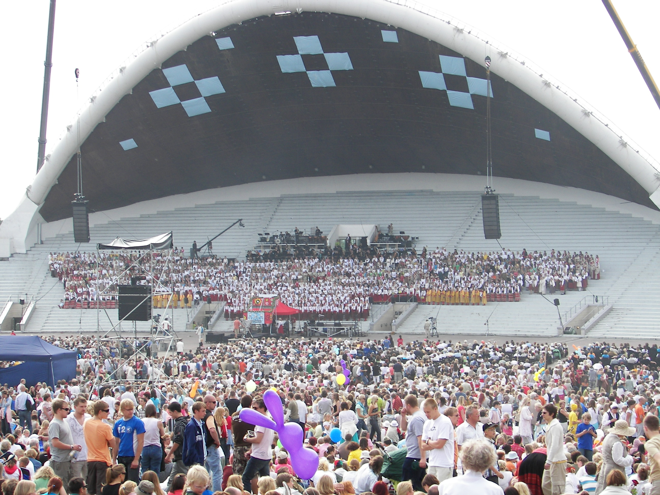 10th Estonian Youth Song Celebrations.